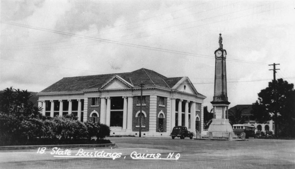 State Government Building at Cairns, ca. 1936